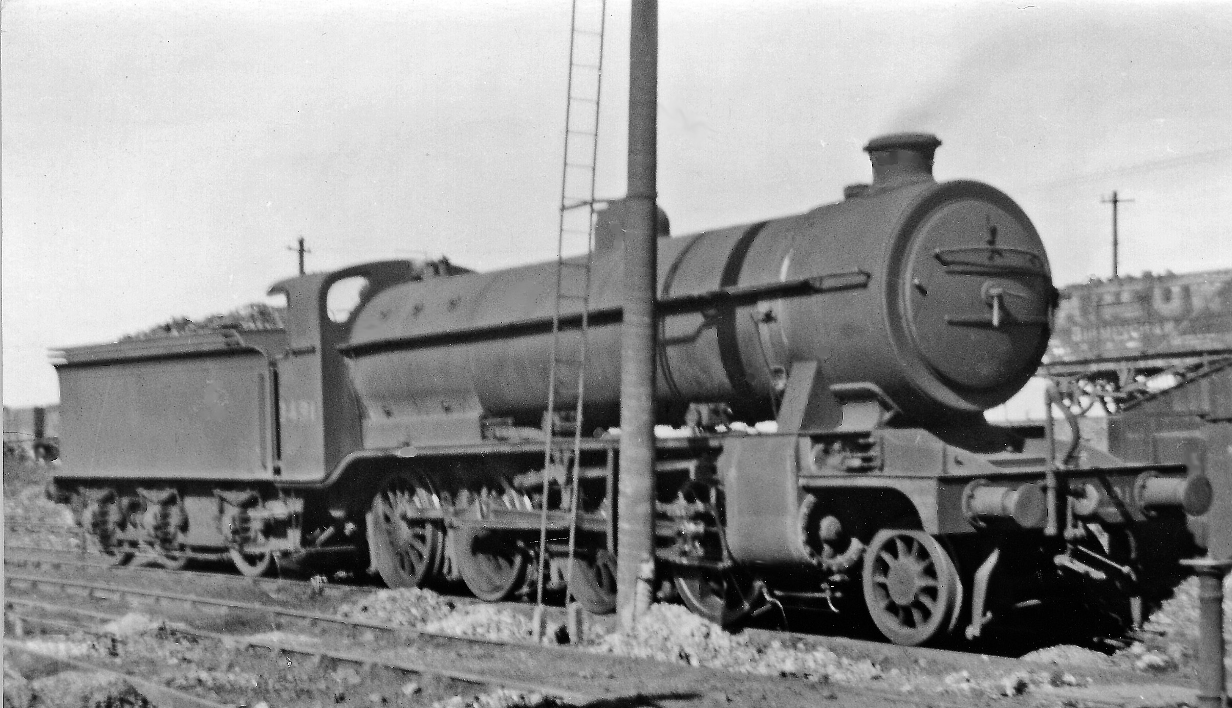 Gresley ex-GNR Class O3 2-8-0 at Immingham Locomotive Depot. These were Gresley's first 2-8-0's, Class O1 (reclassified to O3 in 2/44 when Thompson introduced his 'Group Standard' O1 class), designed for the mineral traffic that was so important on the GN main lines; No. 3491 was built in 10/19, withdrawn in 12/50.